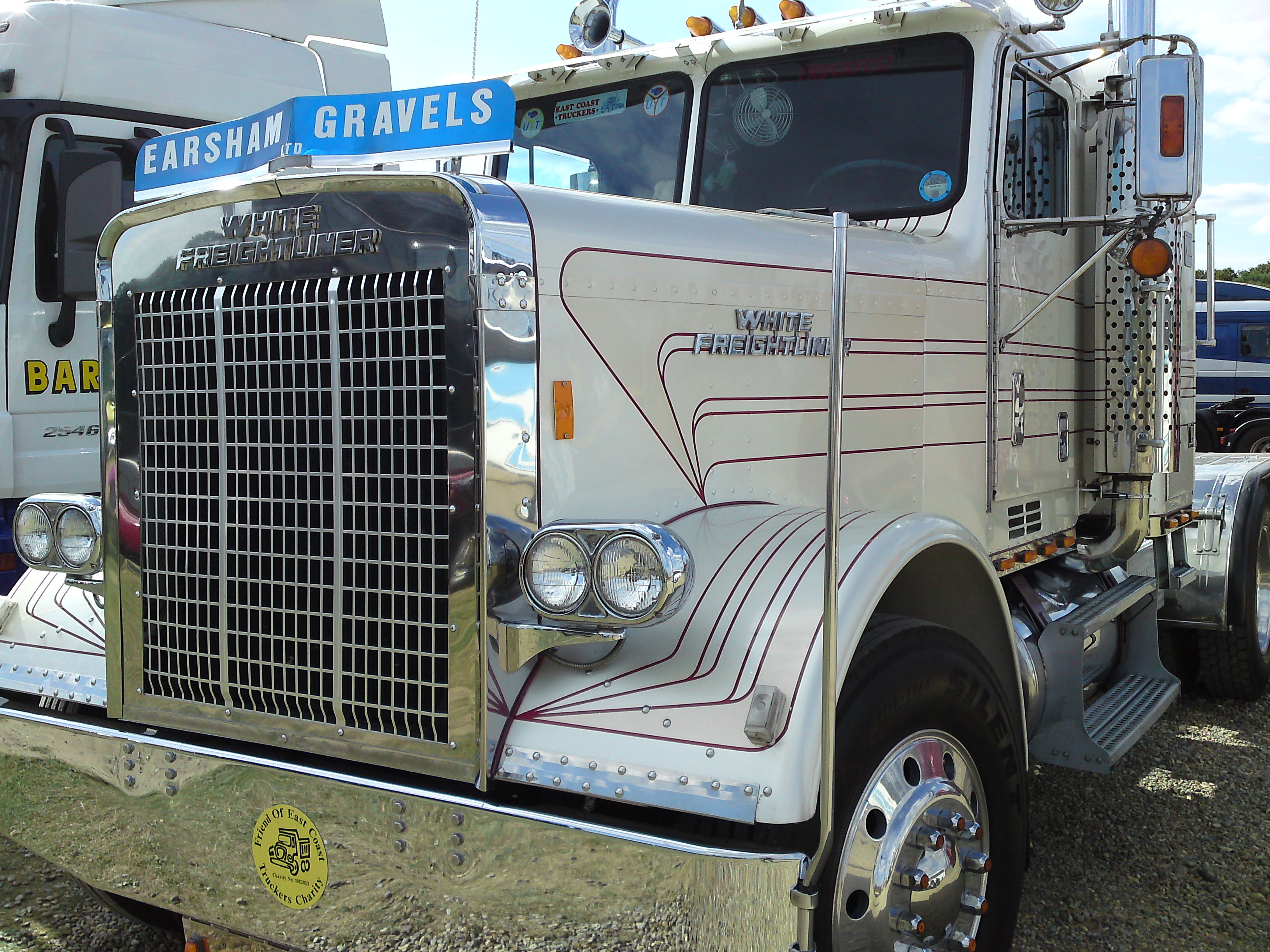 East Coast Truckers. 24th Children's Convoy 2009